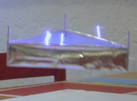 Picture of a flying "Lifter v1", which uses the Biefeld–Brown effect. Electric arcs are unwanted, but sometimes occur.